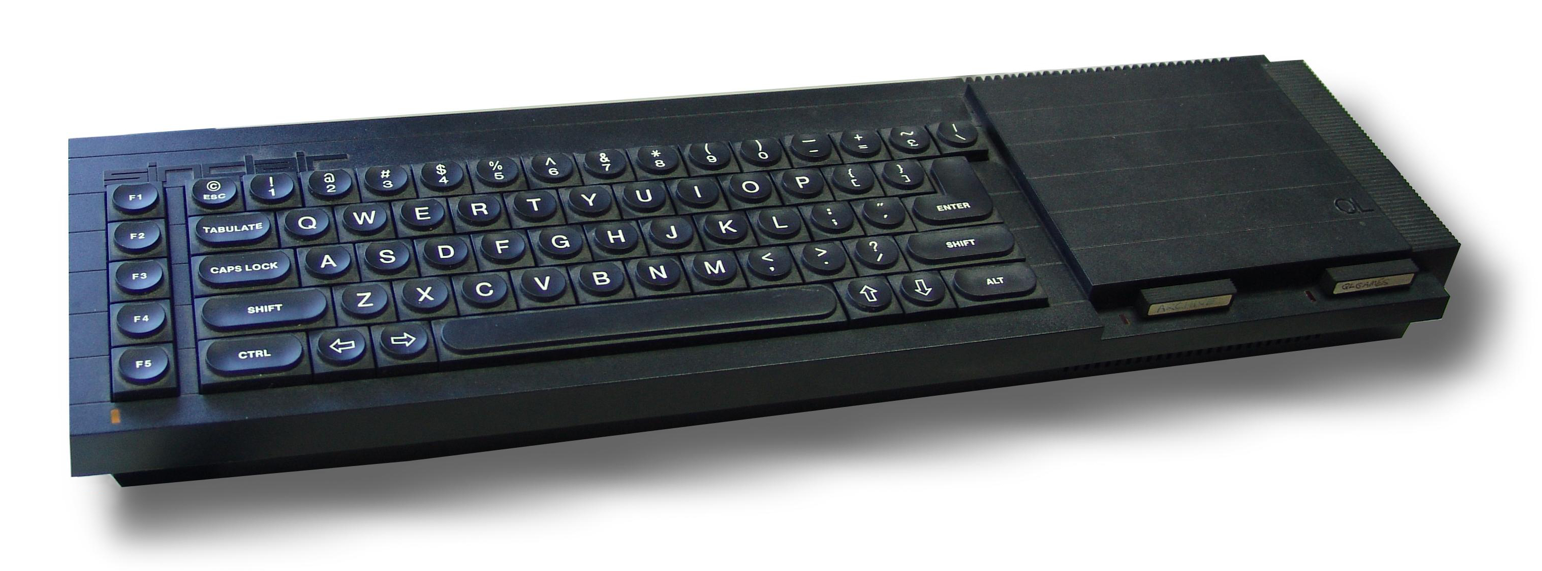 A working Sinclair QL